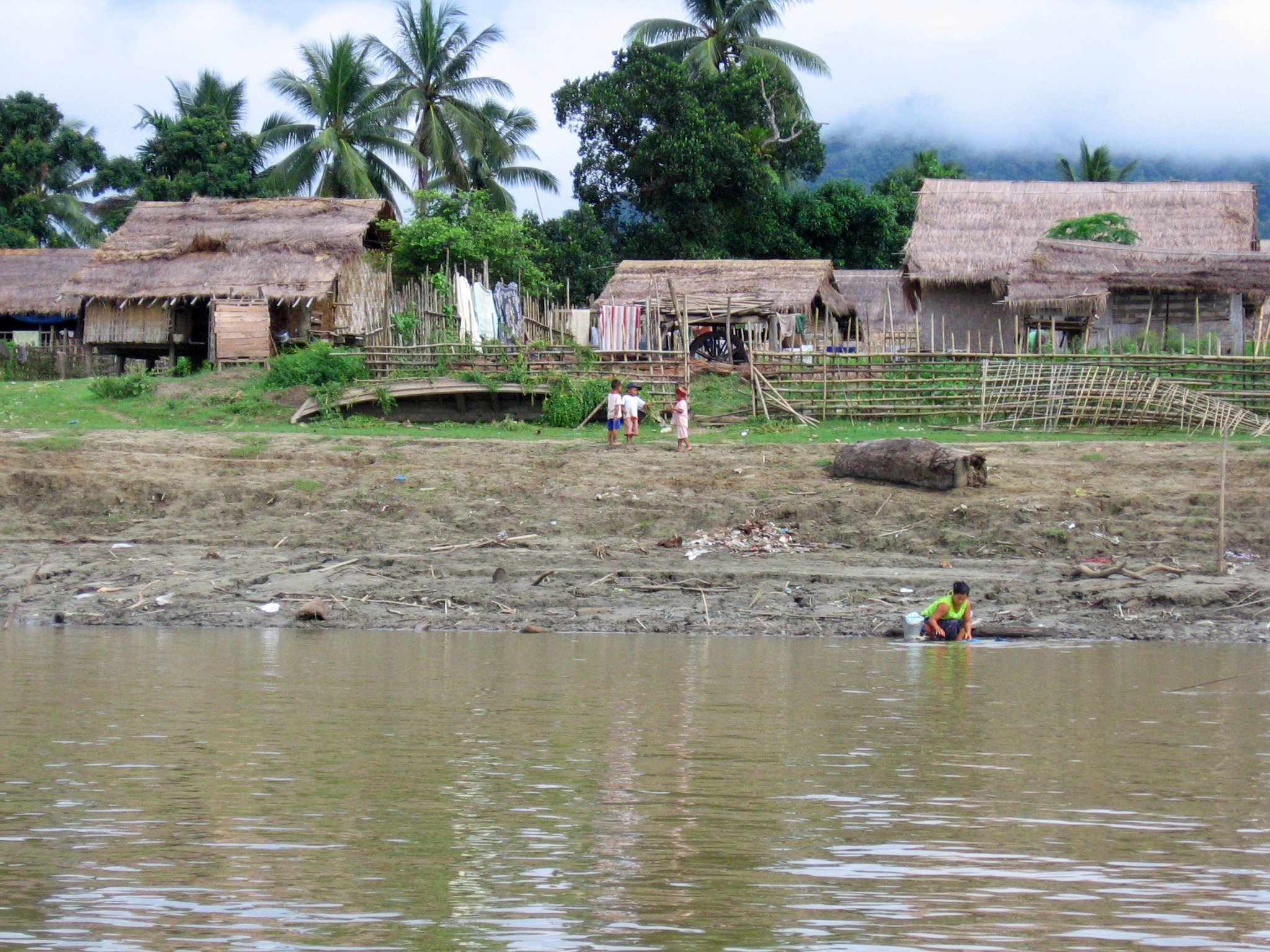 Houses close to Ayeyarwady River near Bhamo (Myanmar).